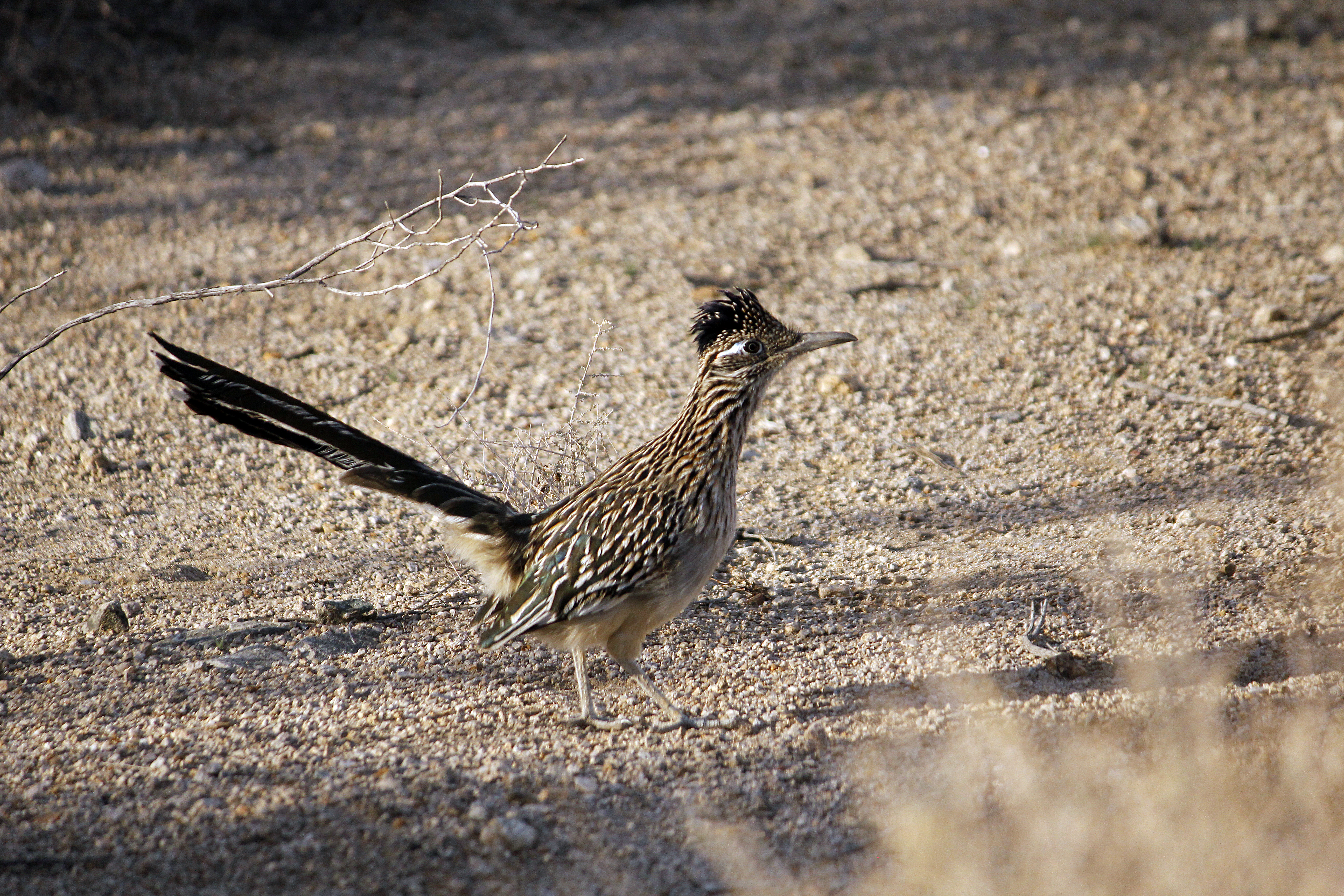 Birds in Joshua Tree National Park: Greater roadrunner (Geococcyx californianus)